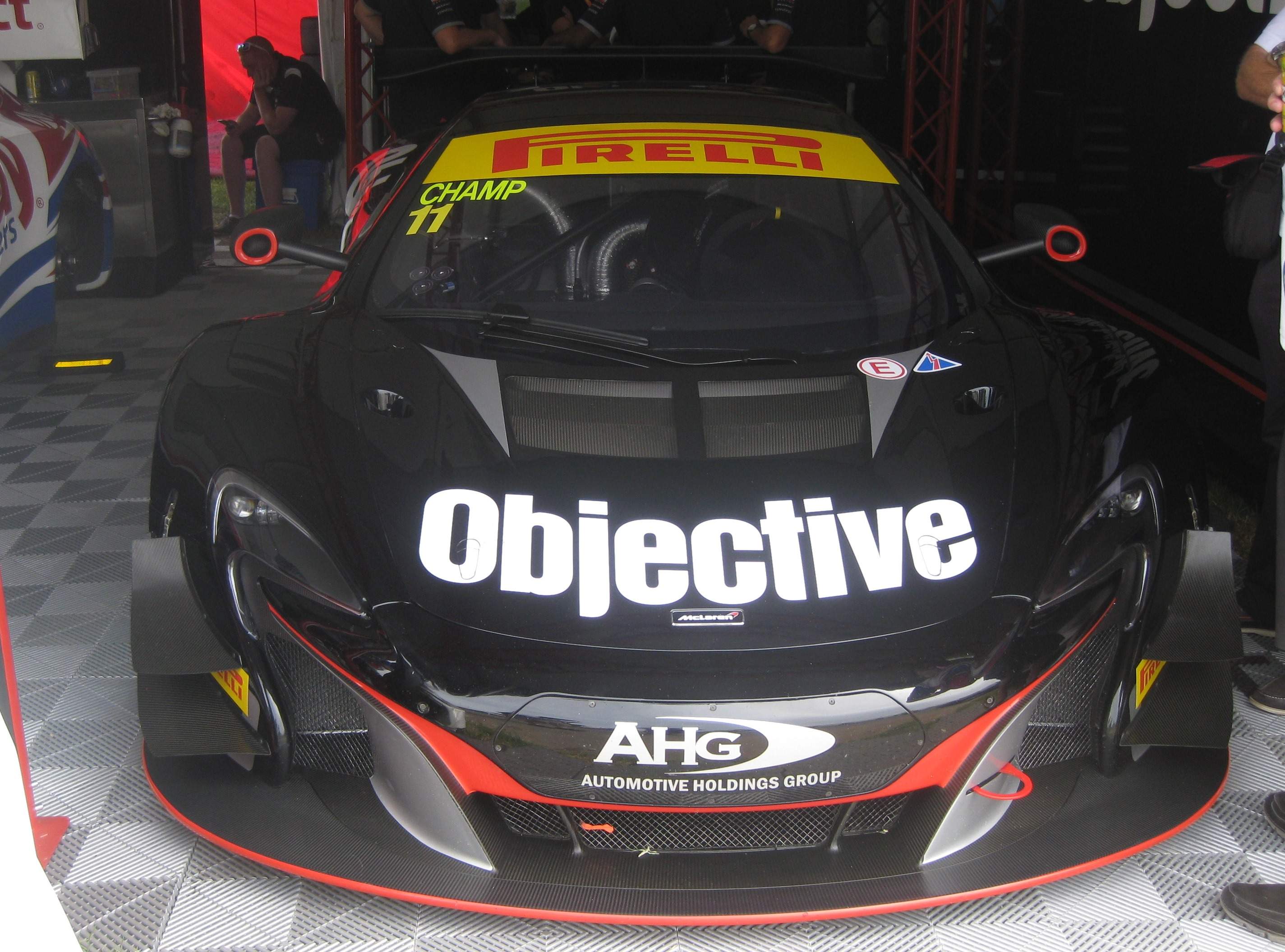 McLaren 650S GT3 of Tony Walls at the opening round of the 2015 Australian GT Championship